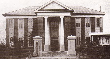 Shisuka Town Office